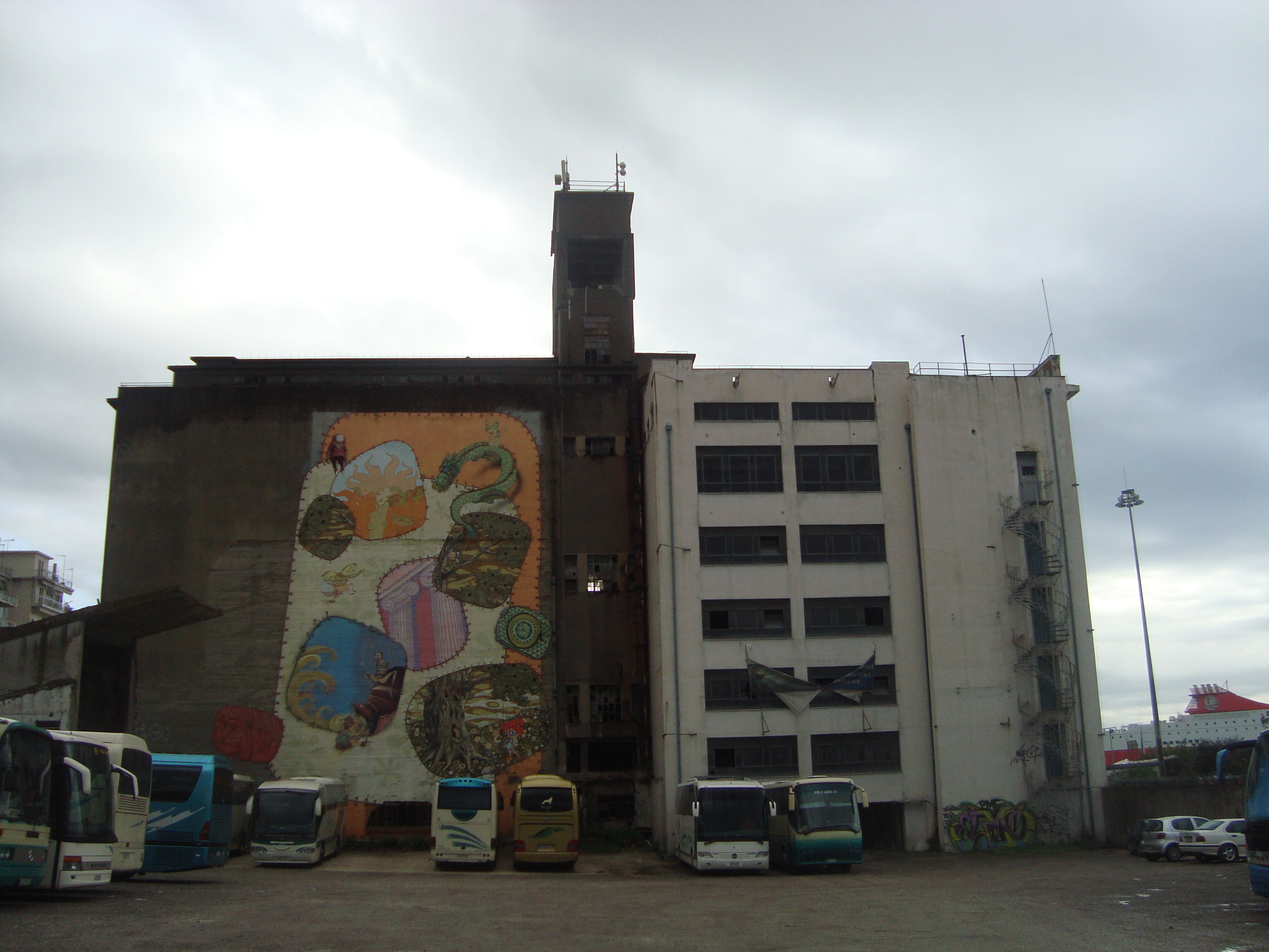 St George Mills, Patra